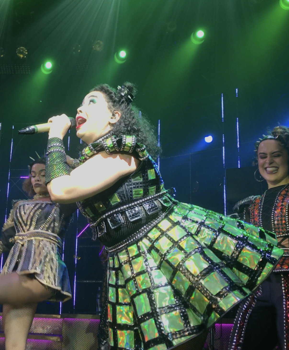 Bowman performing in Six at the Arts Theatre in 2020